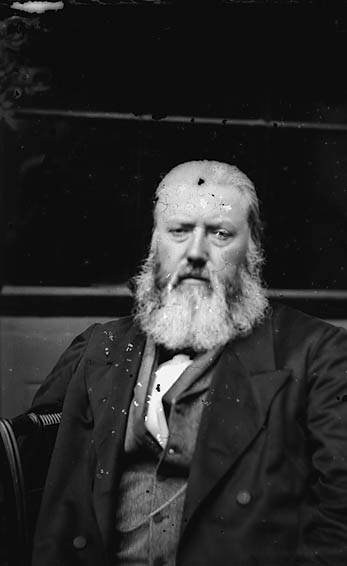 1 negative : glass, wet collodion, b&w ; 11 x 16.5 cm.